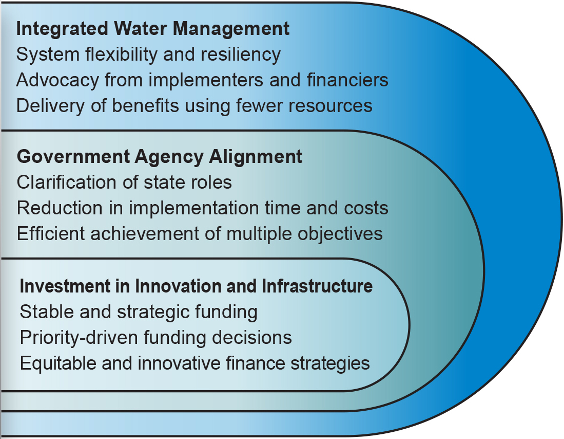 A cropped image of the Three Themes graphic from the California Water Plan Update 2013.